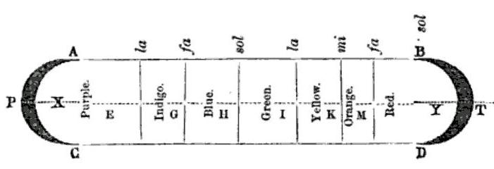 diagram of spectrum of light seen projected on a wall from a prism, "prismatic colours"